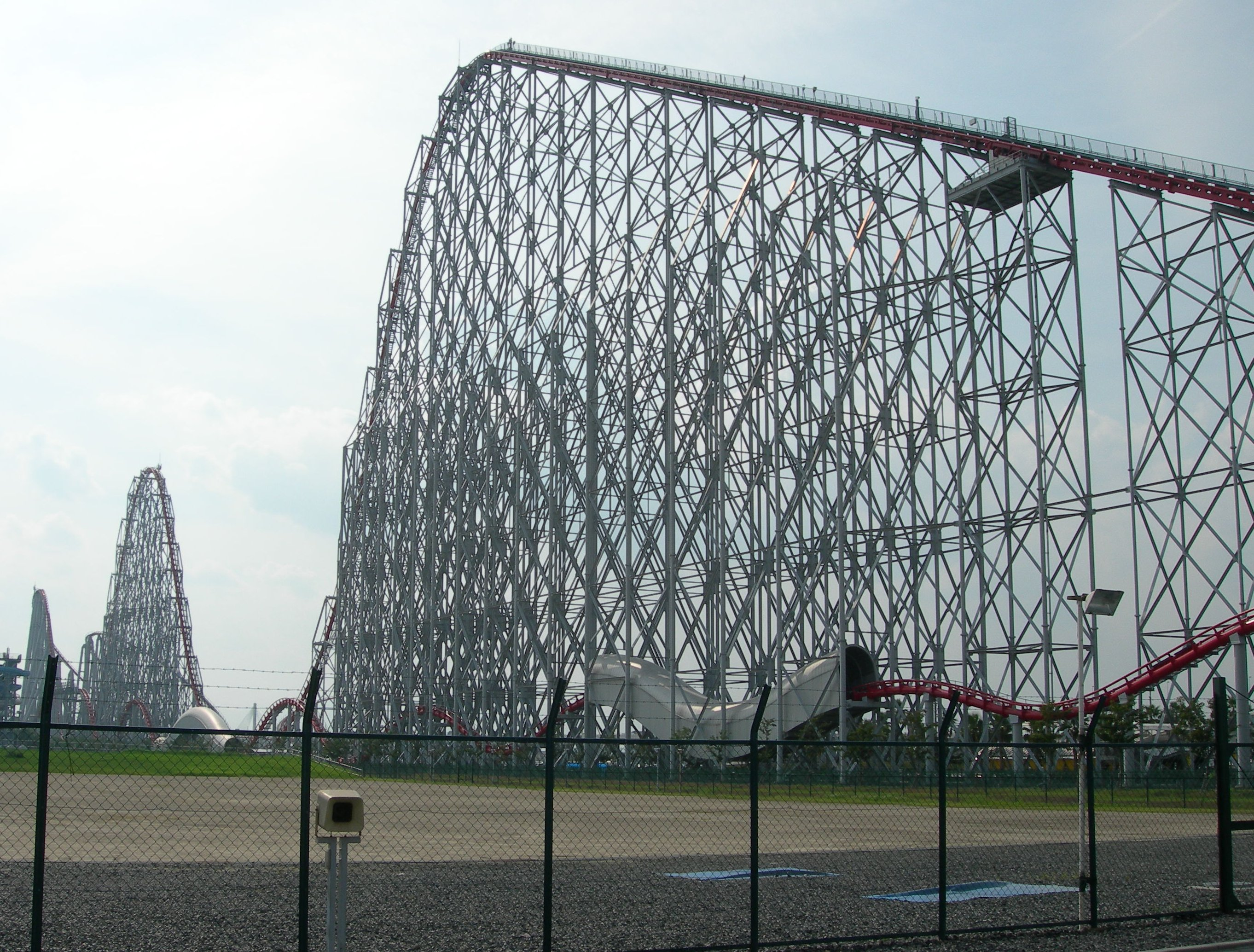 Steel Dragon 2000 roller coaster at Nagashima Spaland in September 2005